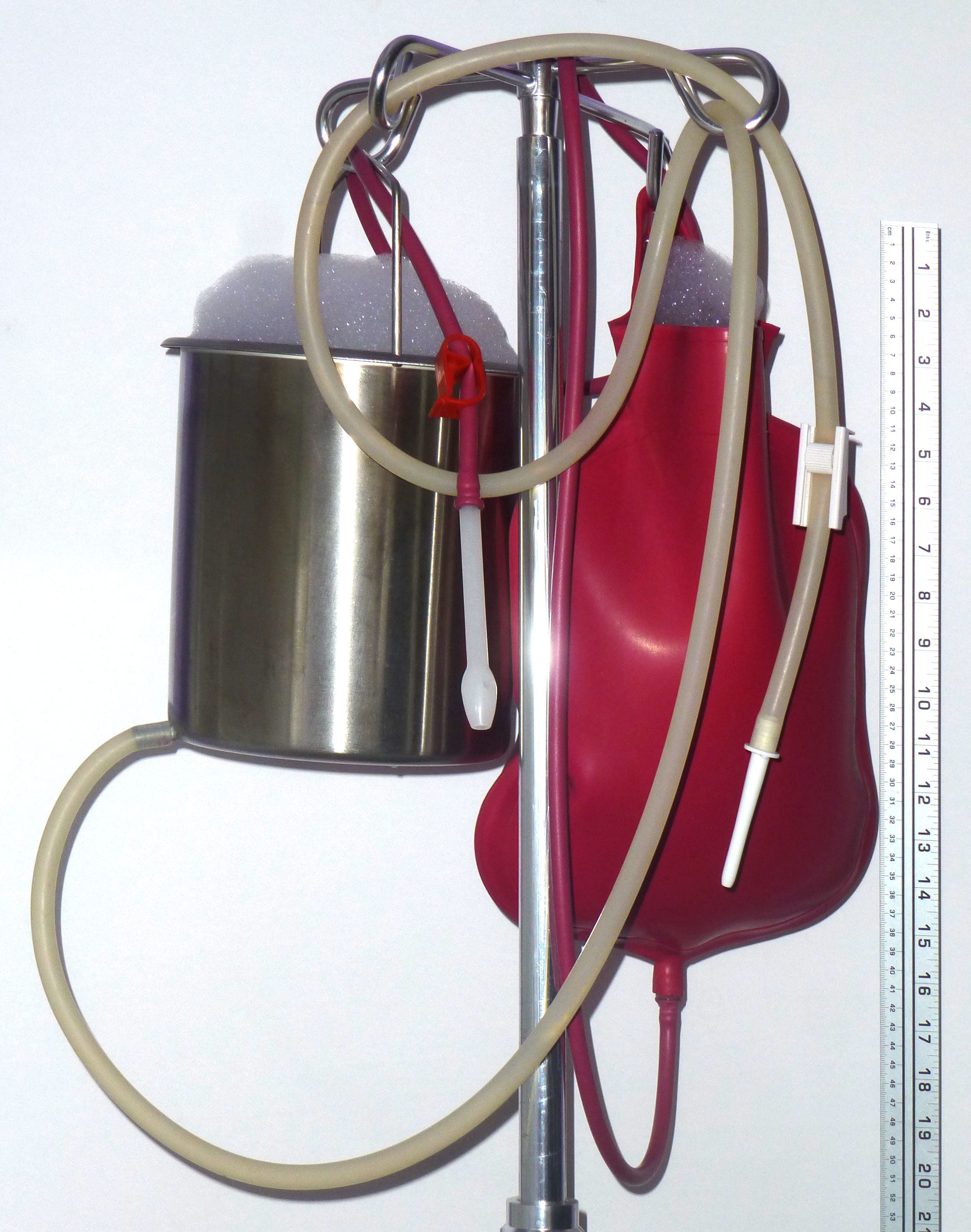 A soapspuds enema in a can with a nozzle typical for a cleansing enema and an enema in a bag with a barium nozzle.